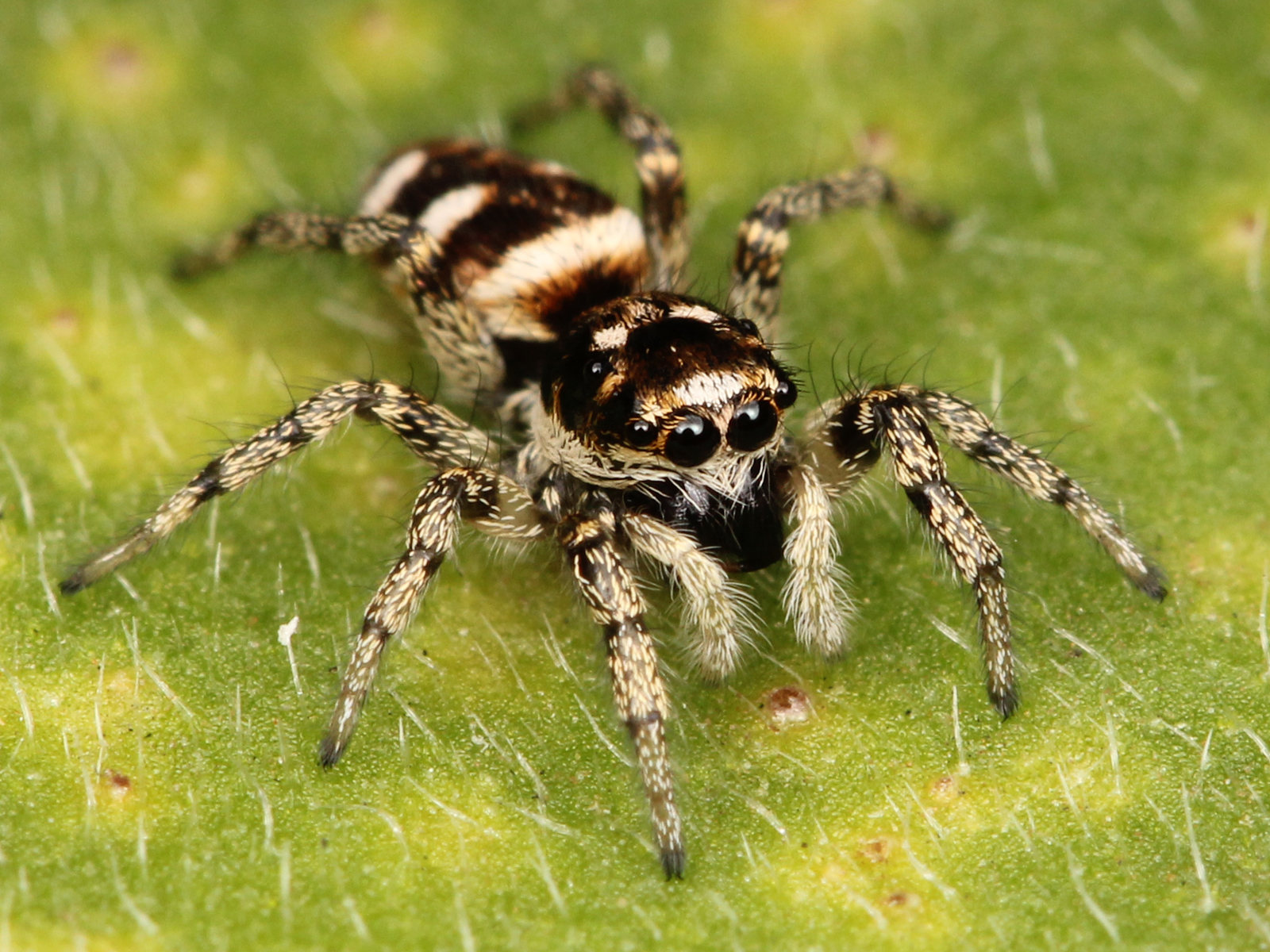 Adult female Salticus scenicus jumping spider. Found at China Camp State Park, California.